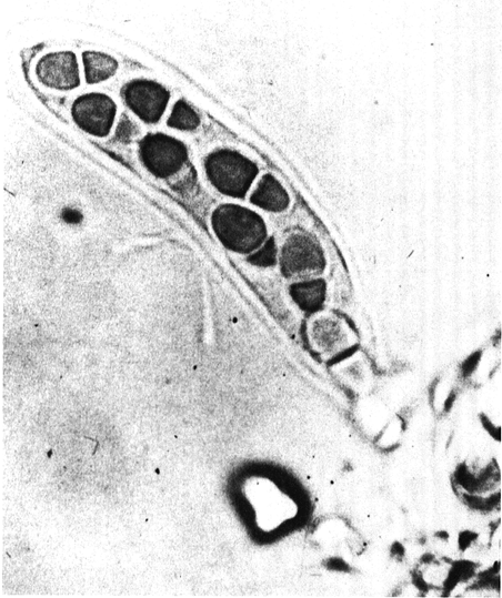 Bitunicate ascus and ascospores of Didymella rabiei, aka Ascochyta rabiei